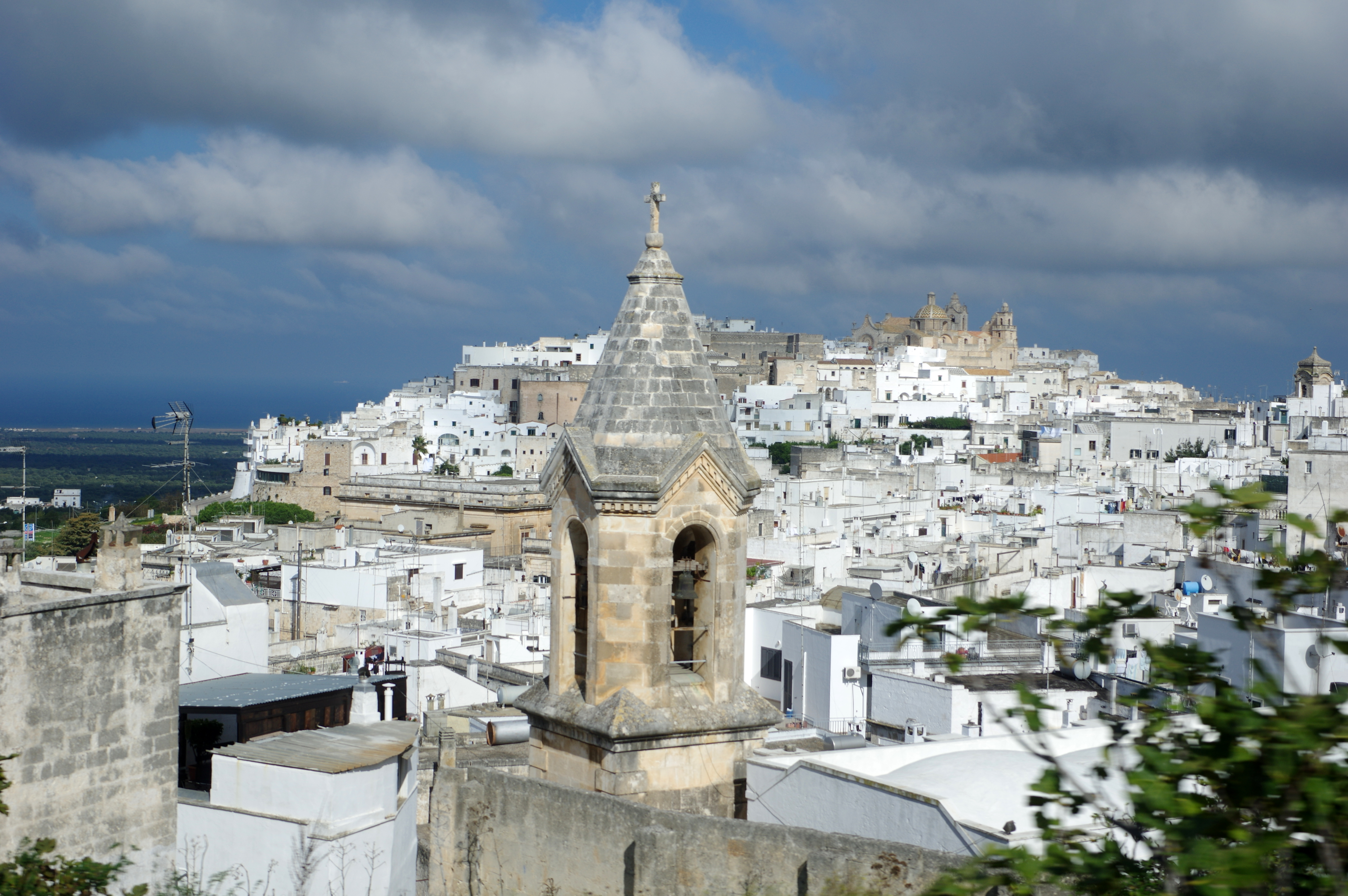 Italy, Ostuni